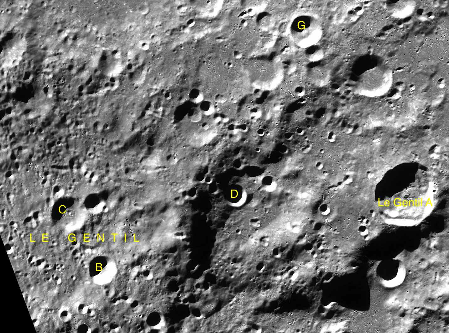 Part of the chart LAC-136 used for the presentation